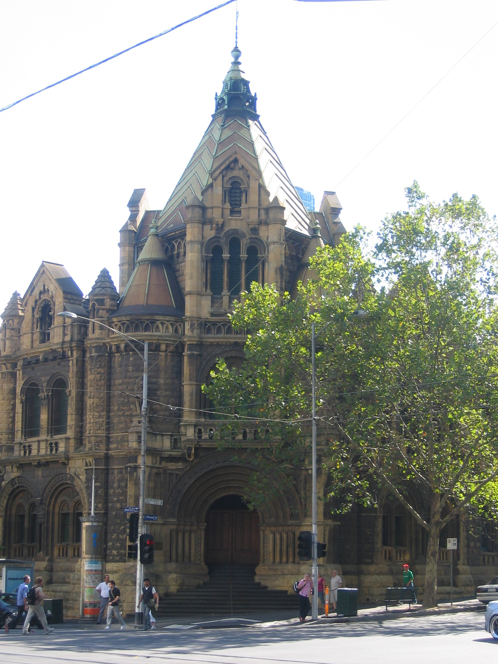 RMIT Building 20, Melbourne, Australia